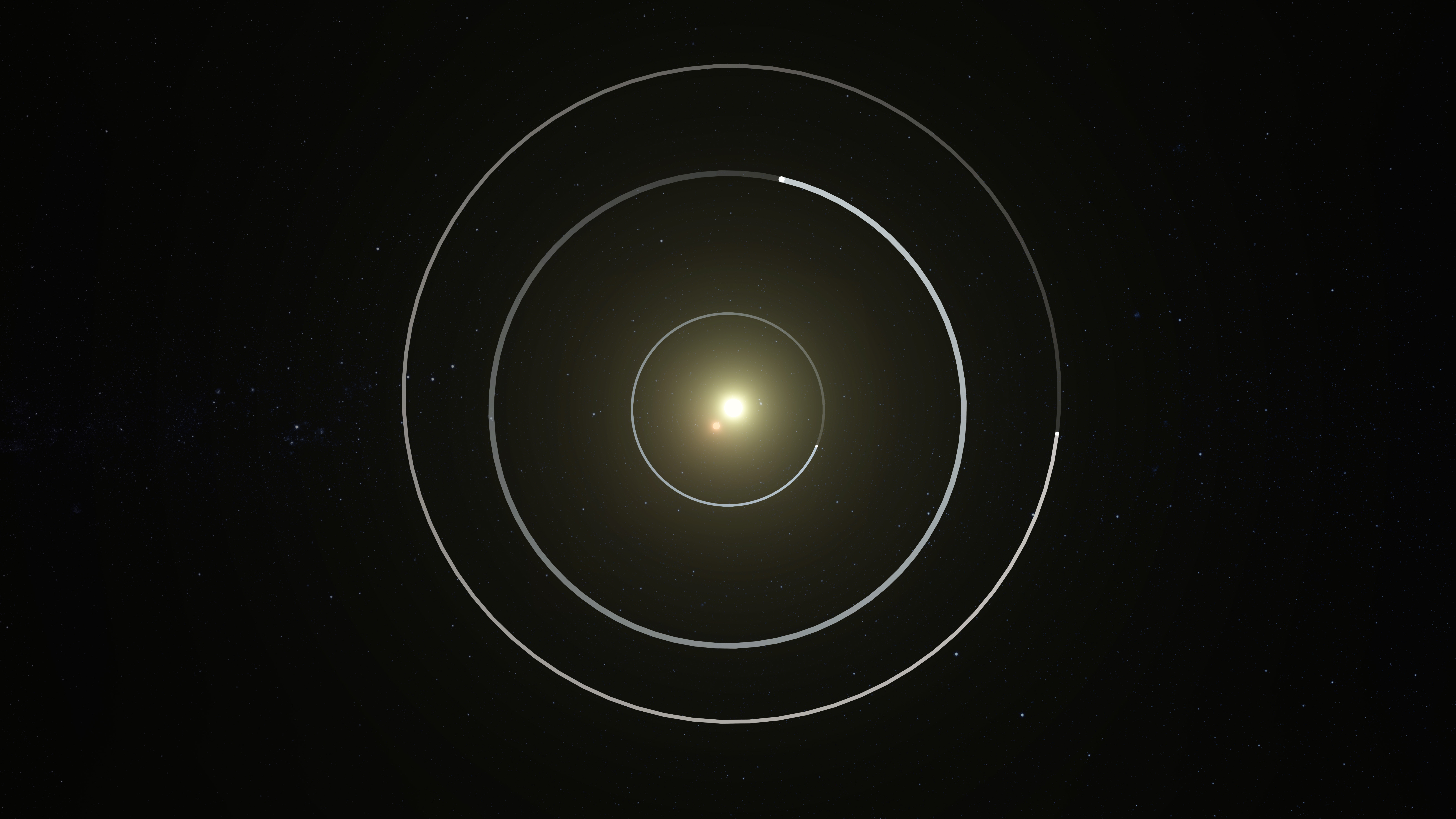 An overhead view of the orbital configuration of the Kepler-47 circumbinary planet system.